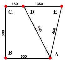 Chinese postman problem route inspection problem example